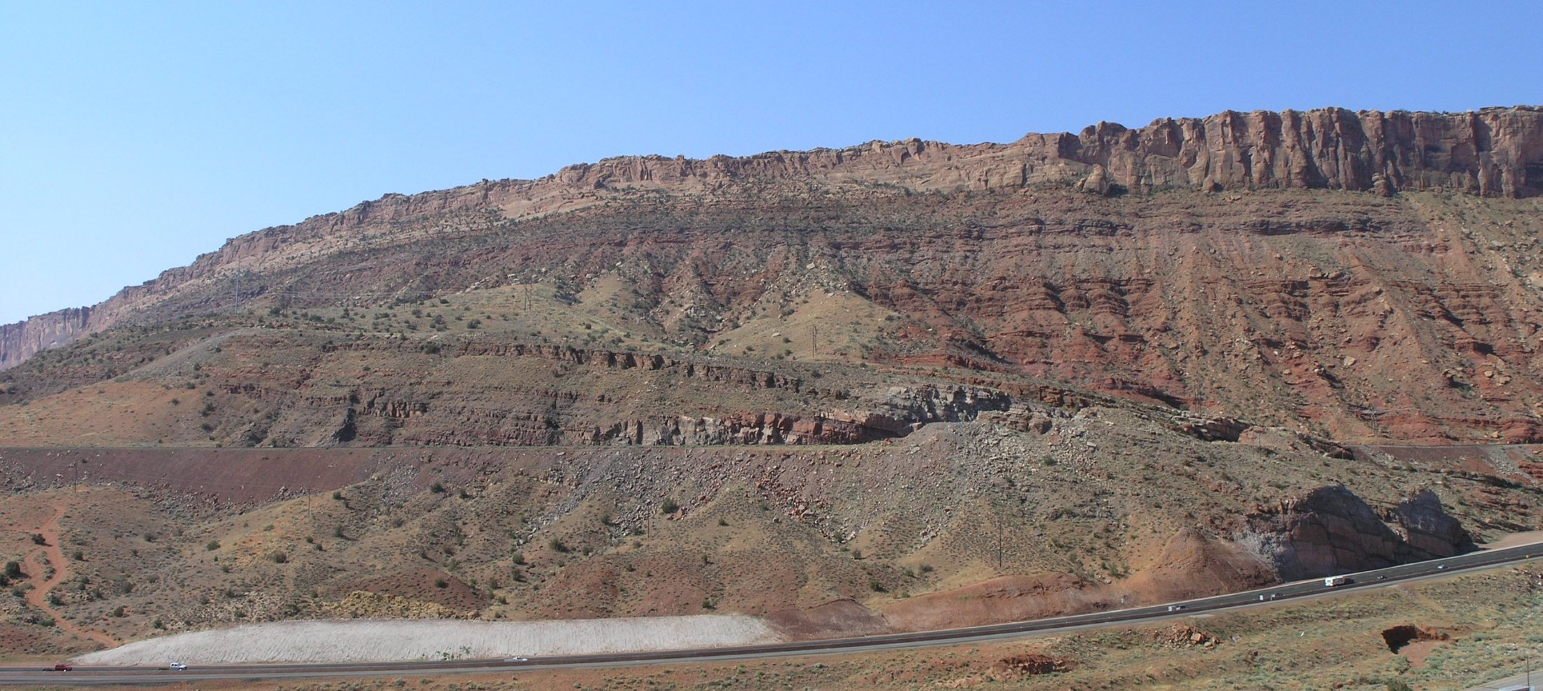 Photo taken by Daniel Mayer in late June 2005.